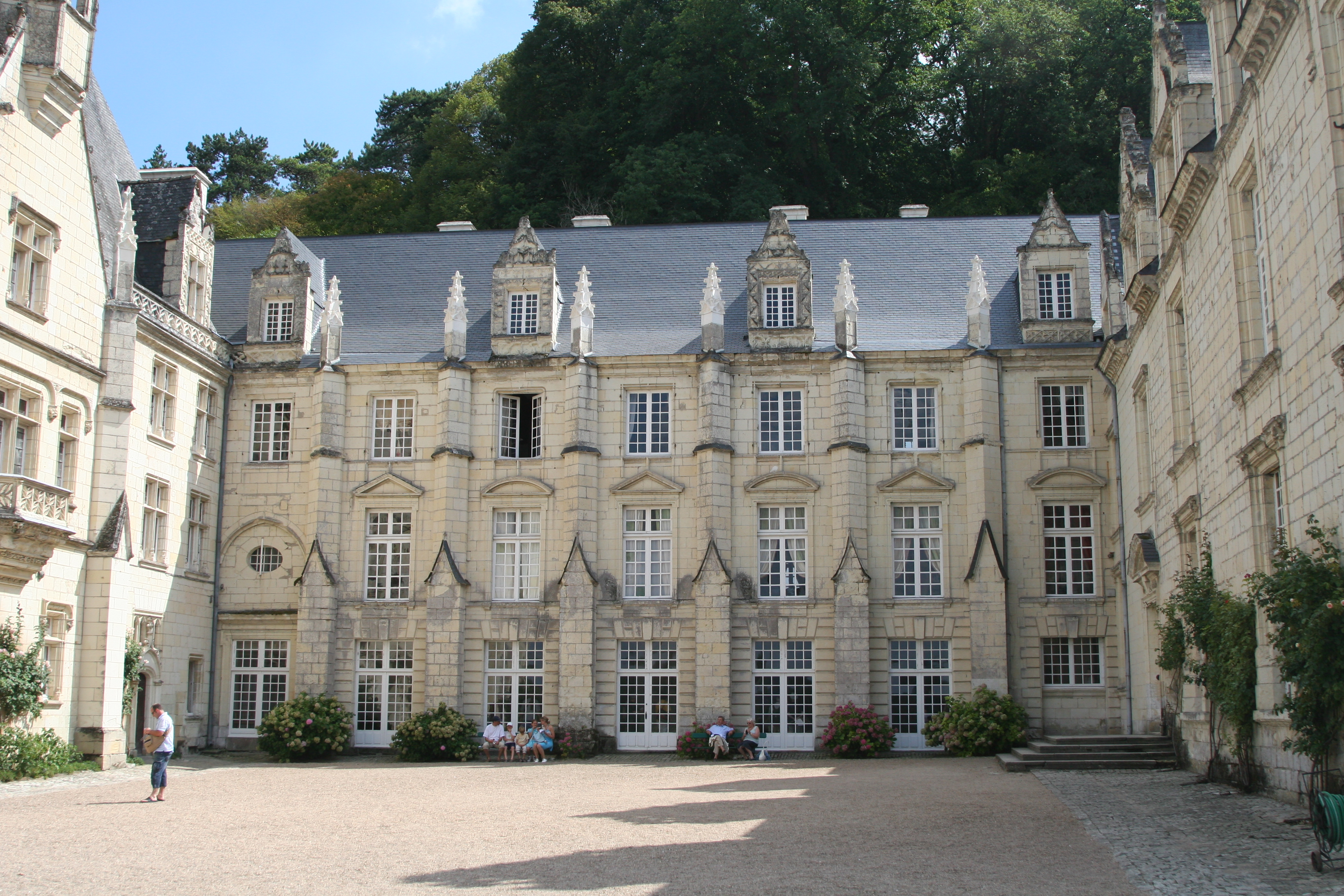 Inner courtyard of the château d'Ussé